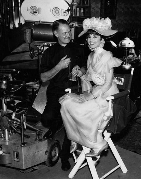 Harry Stradling, Sr. (cinematographer) & Audrey Hepburn on the set of My Fair Lady - publicity still